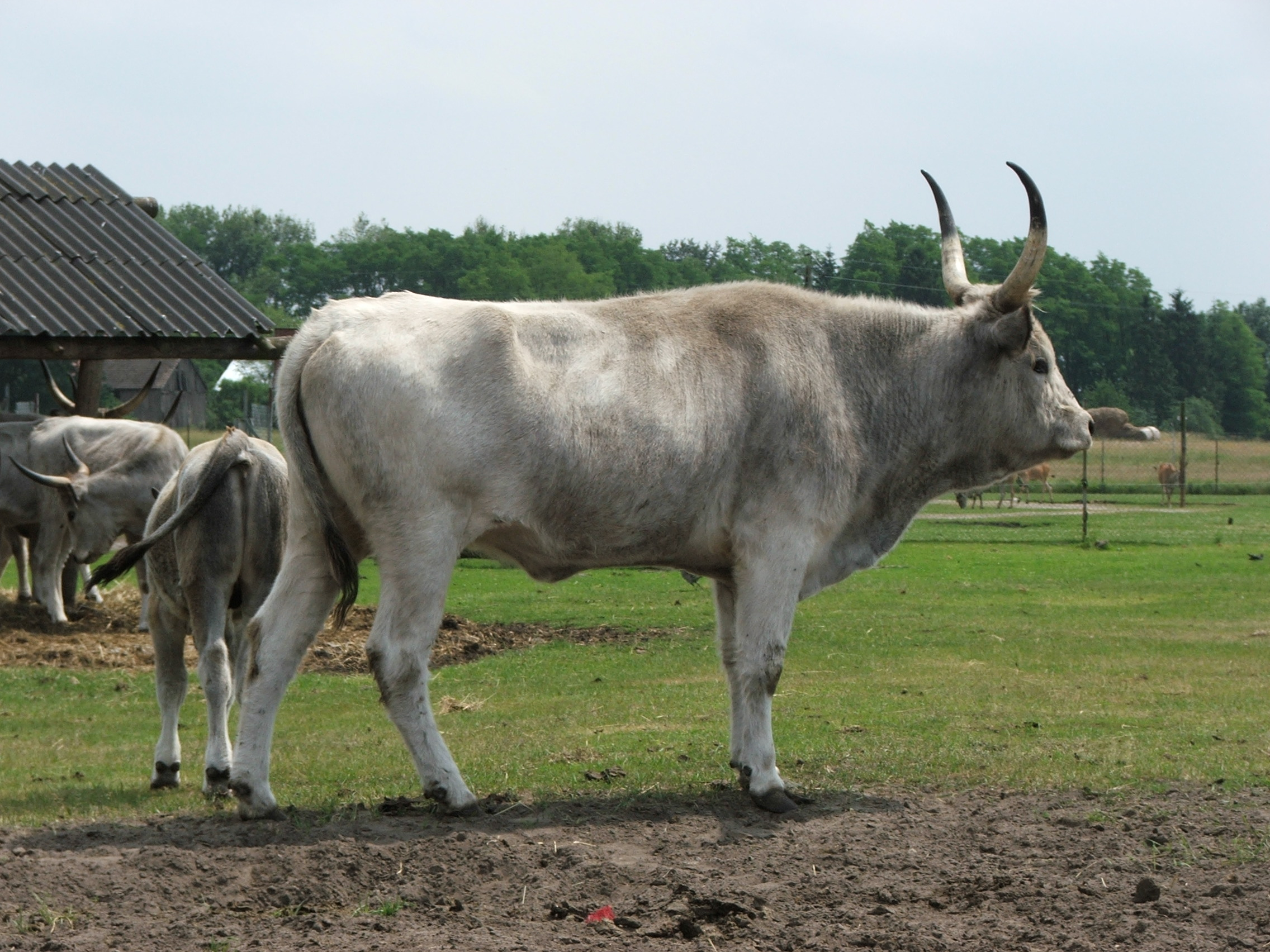 Bos taurus taurus steppe, Zoo Safari in Świerkocin, Poland